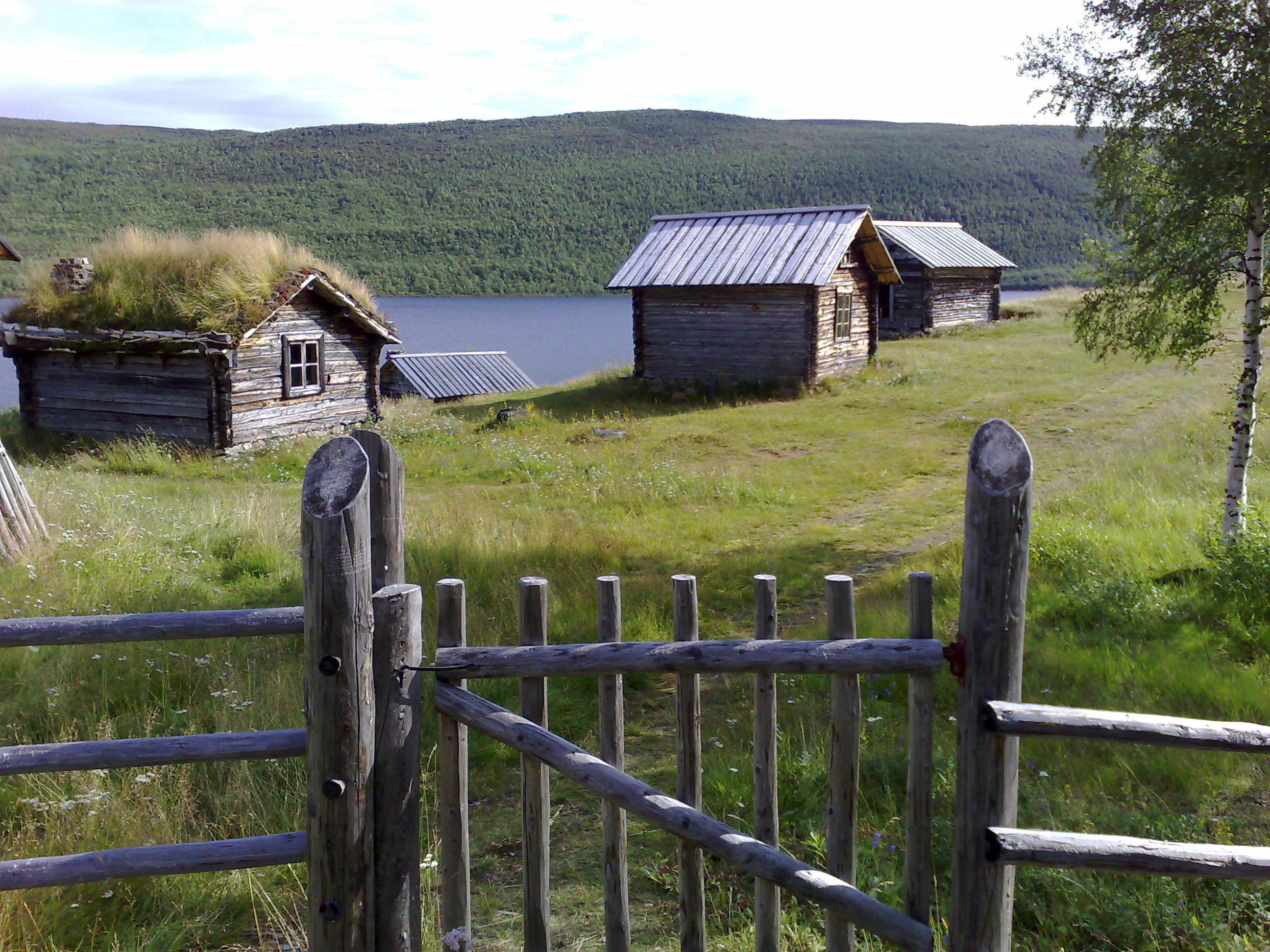 Old log cabins in Utsjoki, Finland, near Mantojärvi lake.